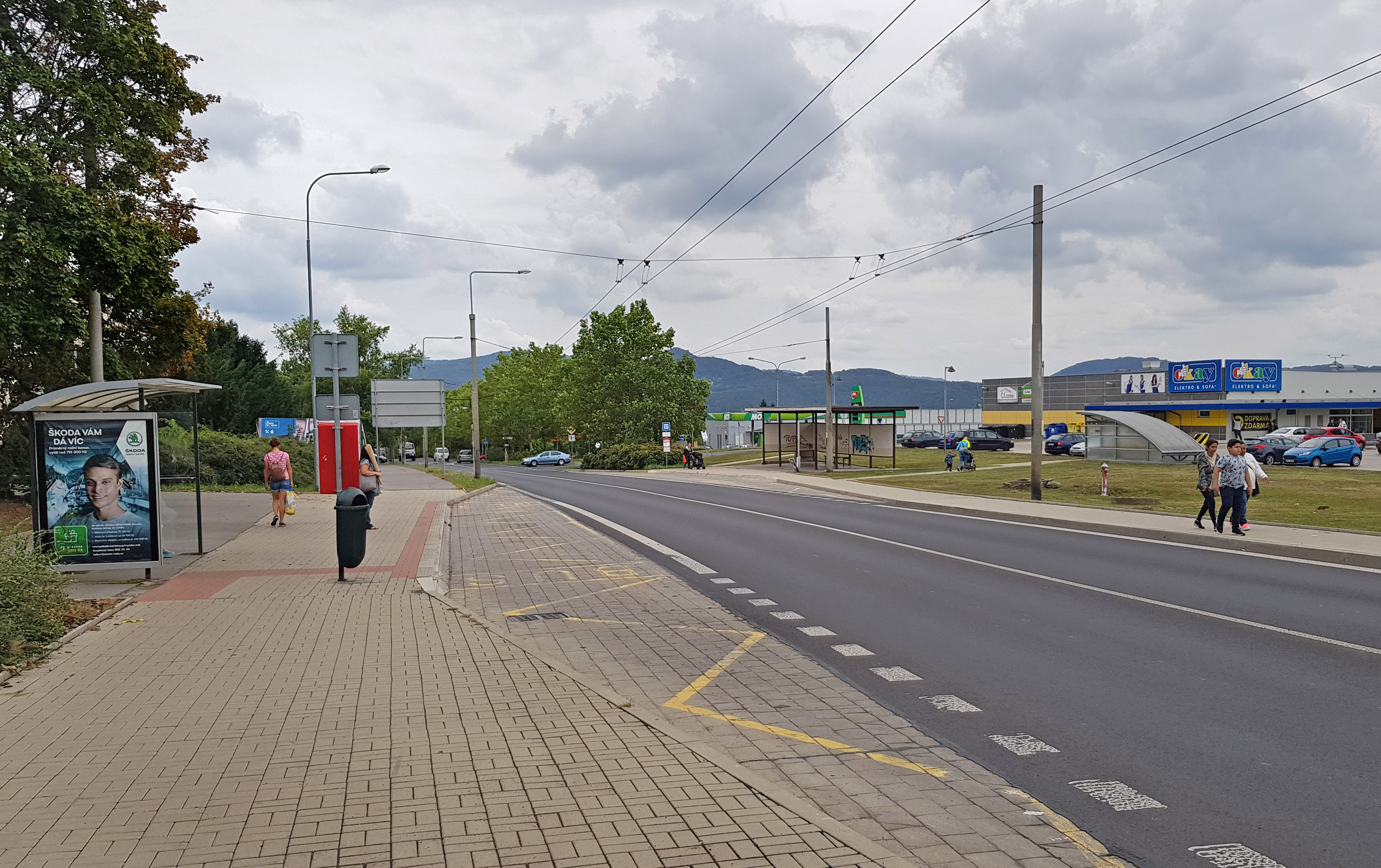 Stříbrnická street, Ústí nad Labem, Czech Republic.